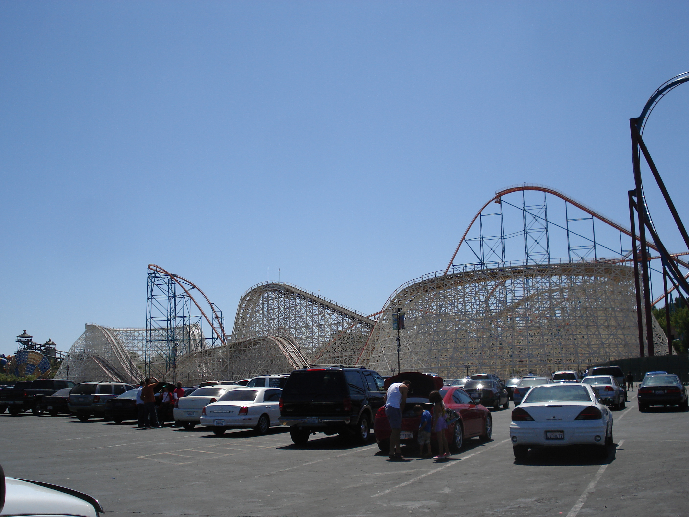 Colossus at Six Flags Magic Mountain